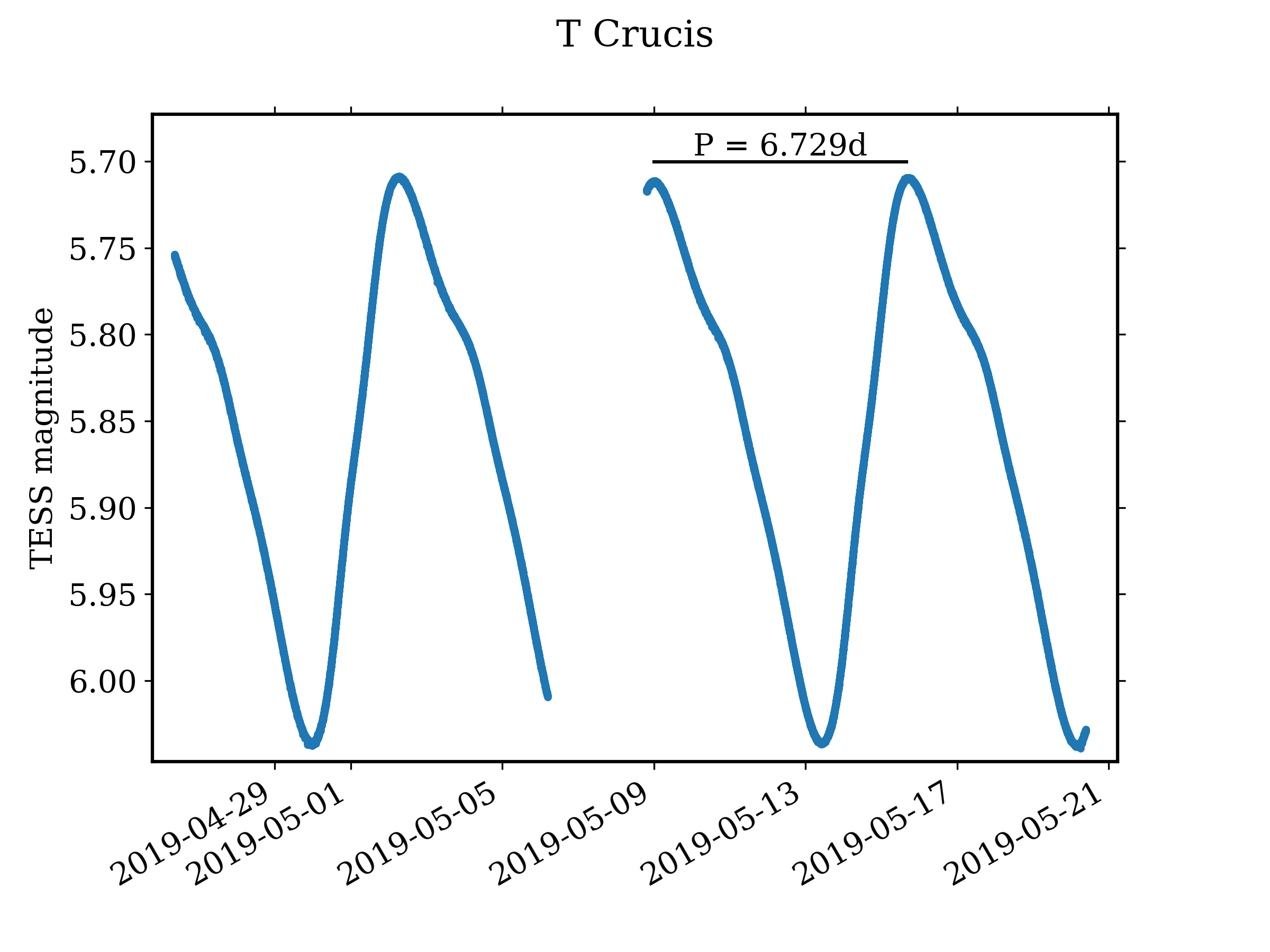 Lightcurve of the classical Cepheid variable T Crucis recorded by NASA's Transiting Exoplanet Survey Satellite (TESS).